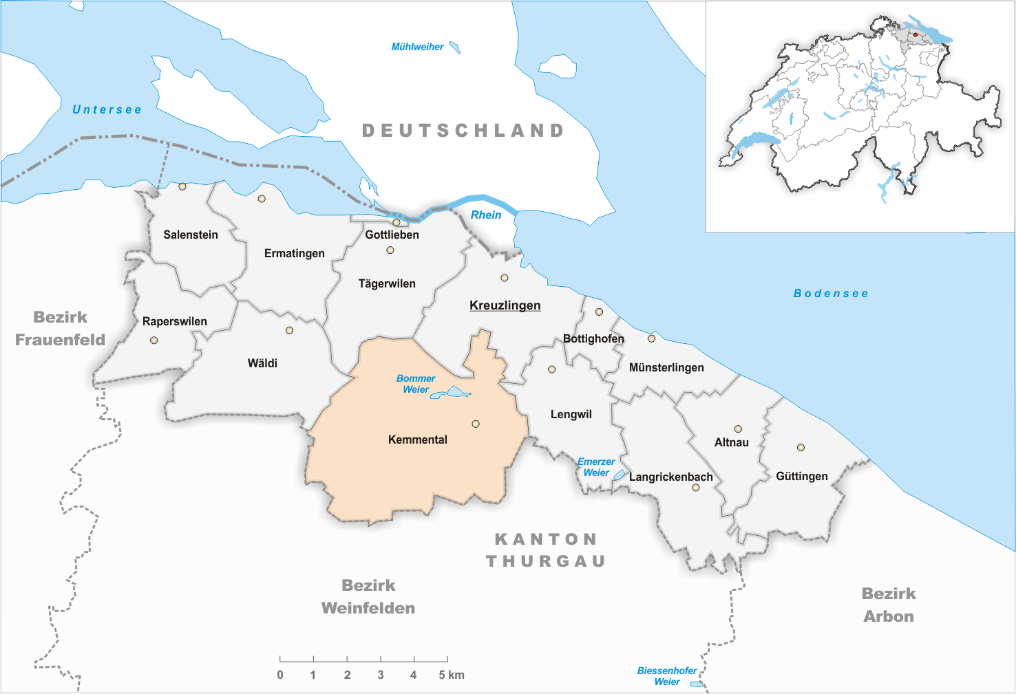 Municipality Kemmental